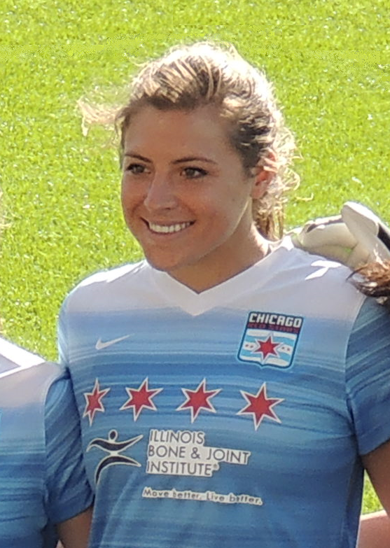 June 12 2016 - Chicago Red Stars starting lineup against Portland Thorns FC